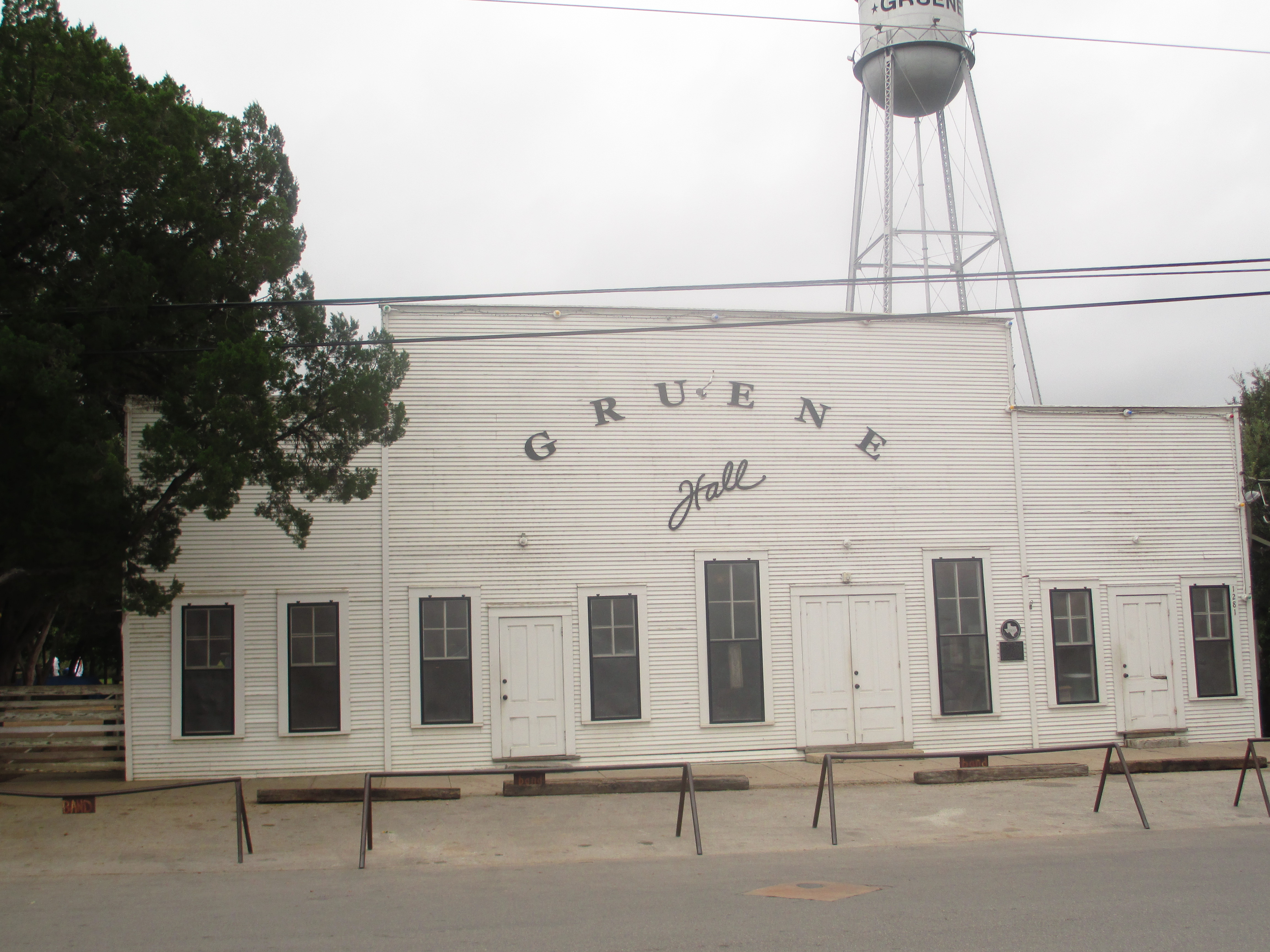 Revised, Gruene Hall in Comal County, TX